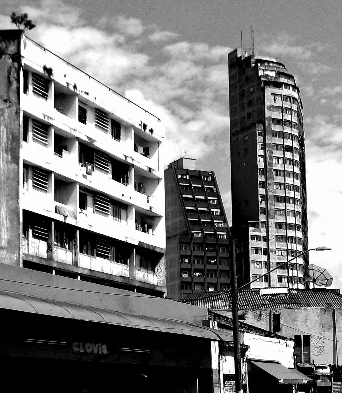 Buildings at Luz neiborhood in the city of São Paulo, in Brazil. Other versions of the same file can be found at Flickr